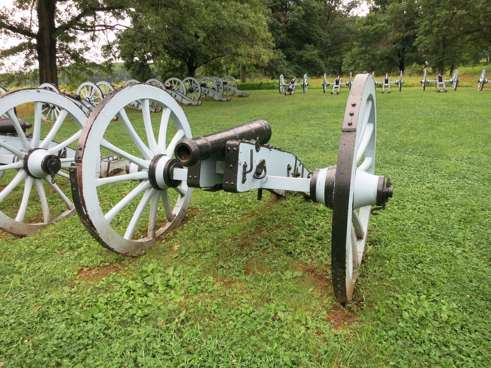 Photo shows replica cannons in the Artillery Park at Valley Forge National Park, Pennsylvania. The Artillery Park is located east of the parking lot on East Inner Line Drive.